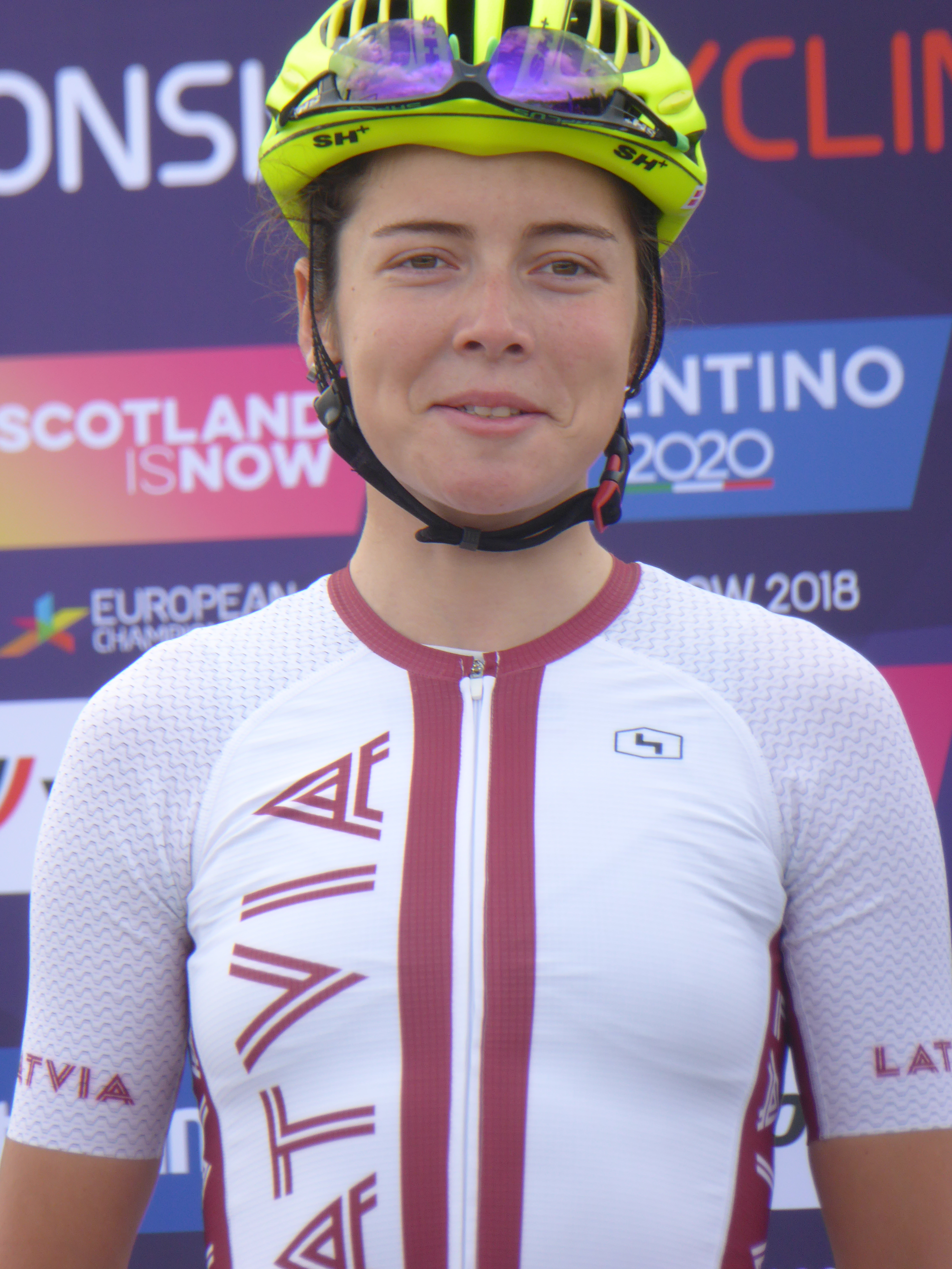 Lija Laizāne (Latvia), prior to the women's road race at the 2018 UEC European Road Cycling Championships in Glasgow.